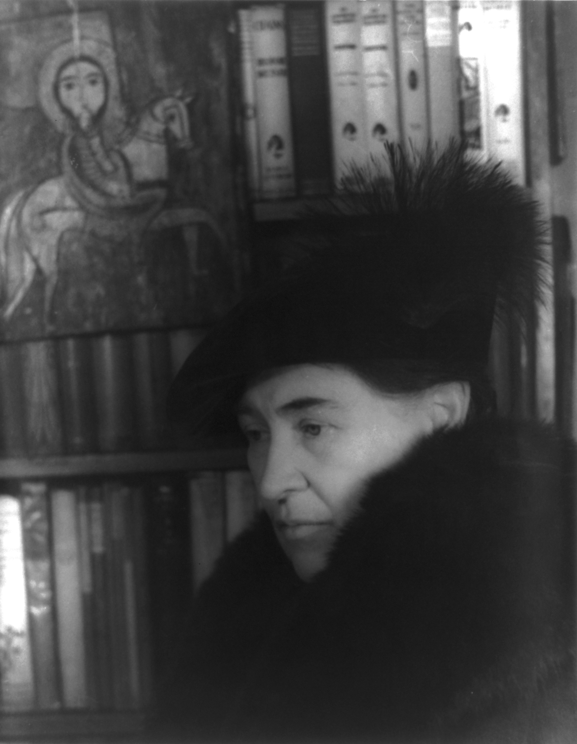 USA writer Willa Cather, photographed by Carl Van Vechten 1936 Jan. 22. Portrait of Willa Cather